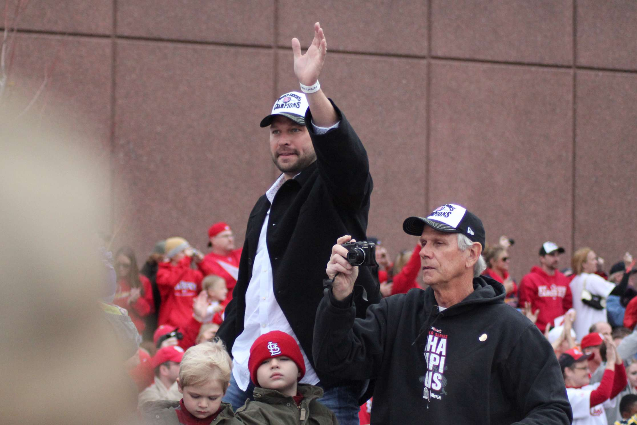 Jake Westbrook during the 2011 World Series victory parade Saint Louis Oct 30, 2011.